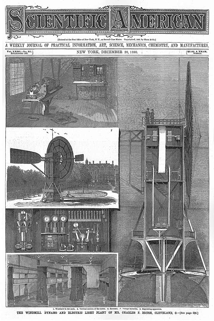 Charles F. Brush's 60 foot, 80,000 pound turbine that supplied 12kW of power to 350 incandescent lights, 2 arc lights, and a number of motors at his home for 20 years. It today is believed to be the first automatically operating wind turbine for electricity generation and was built in the winter of 1887 - 1888 in his back yard. Its rotor was 17 meters in diameter. The large rectangular shape to the left of the rotor is the vane, used to move the blades into the wind. The dynamo turned 50 times for every revolution of the blades and charged a dozen batteries each with 34 cells. For scale, note the men standing on the platform behind the rotor in the right image pane.